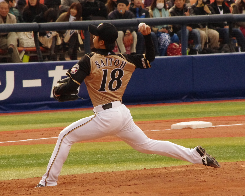 Yuki Saito, pitcher of the Hokkaido Nippon-Ham Fighters, at Yokohama Stadium.